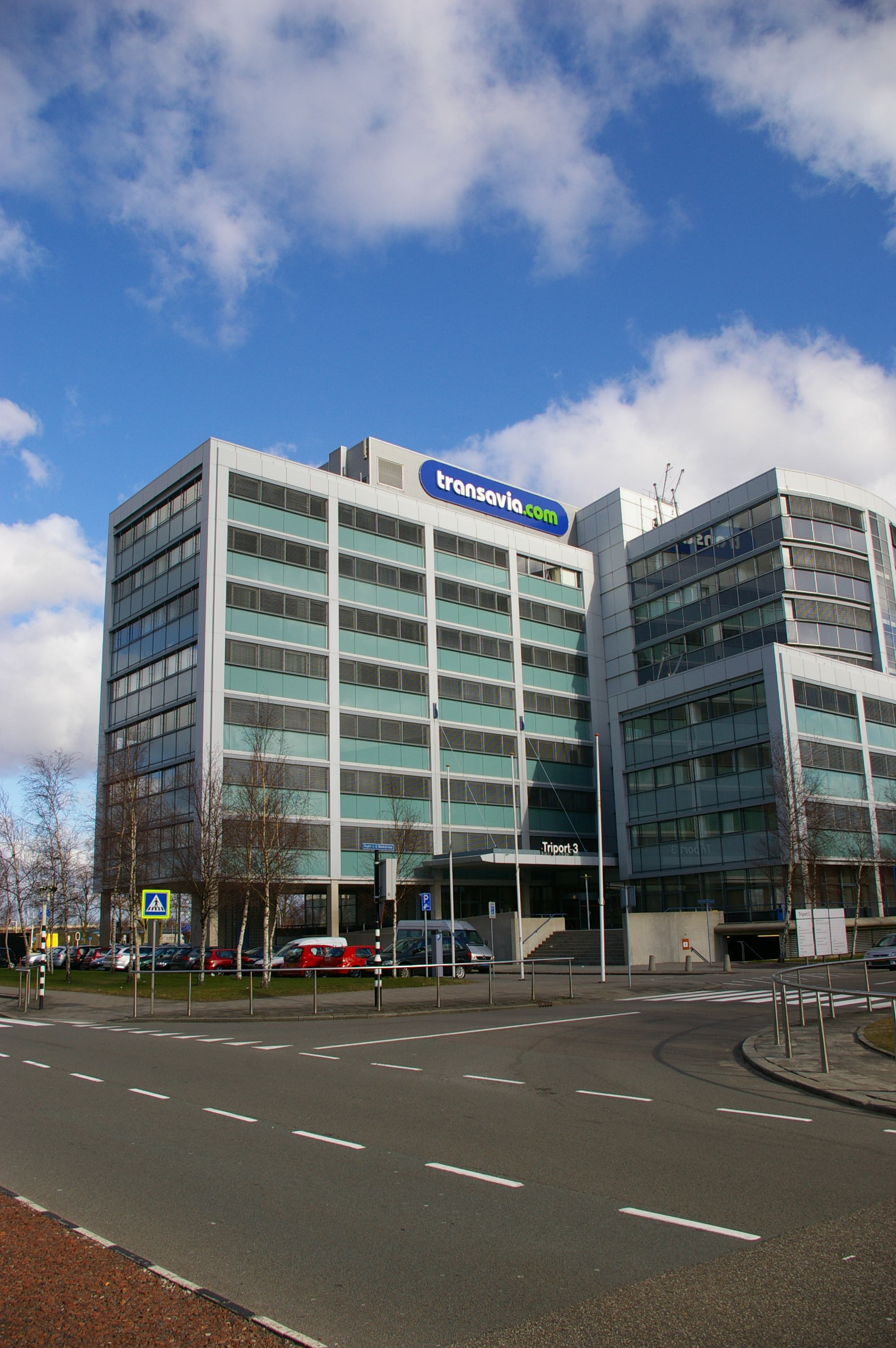 Building Triport III - Transavia office, Westelijke Randweg, Schiphol, the Netherlands. Picture taken at the request of user WhisperToMe.